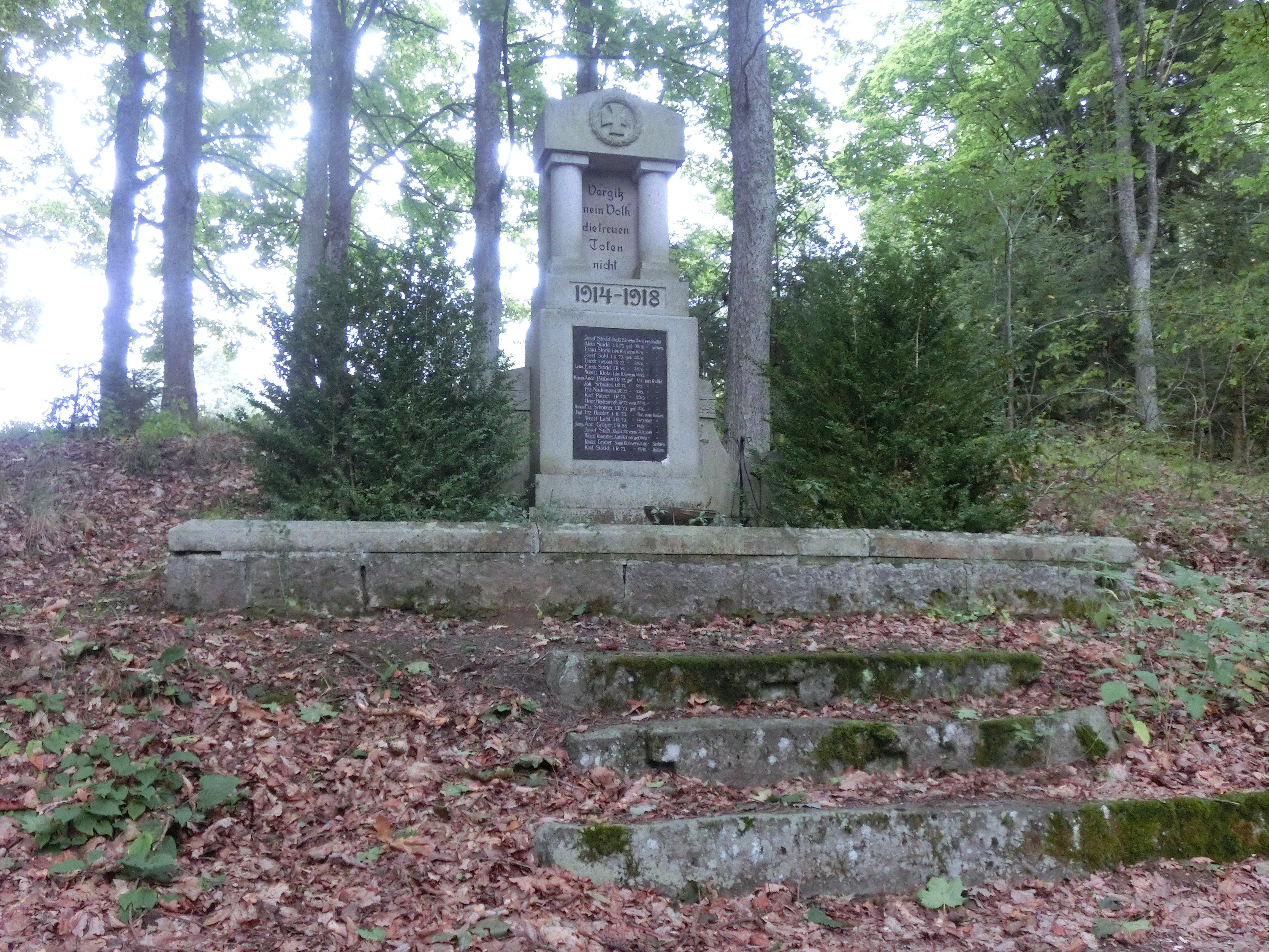 Abandoned village Hraničky (german: Reichenthal) in Rozvadov: War memorials